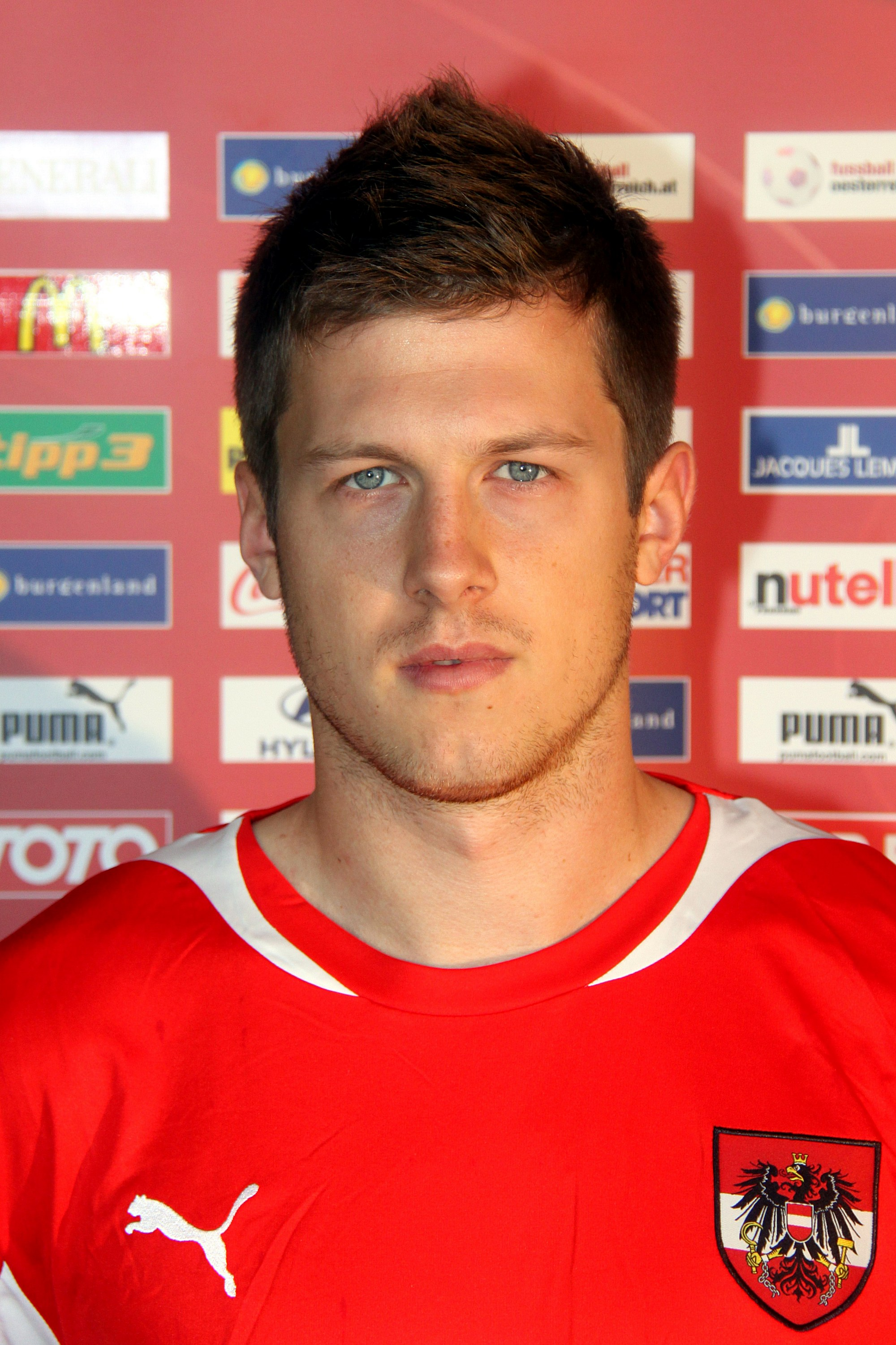 Deni Alar (SK Rapid Wien) - Austria national under-21 football team (age group 1990).